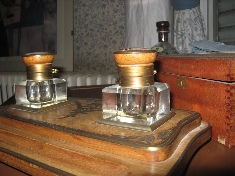 What will remain when our mails will have disappeared? Not even a photograph of our keyboard... How many pages were they written with the ink of this inkwell?